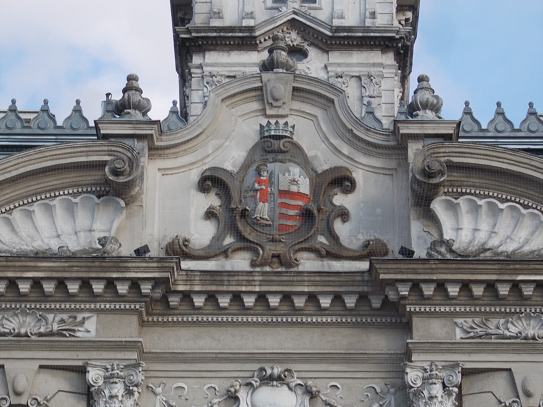 Town Hall by Jenő Hübner (1900). Listed Eclectic building. - Ferdinándváros neighbourhood, Downtown, Győr, Győr-Moson-Sopron County, Hungary.